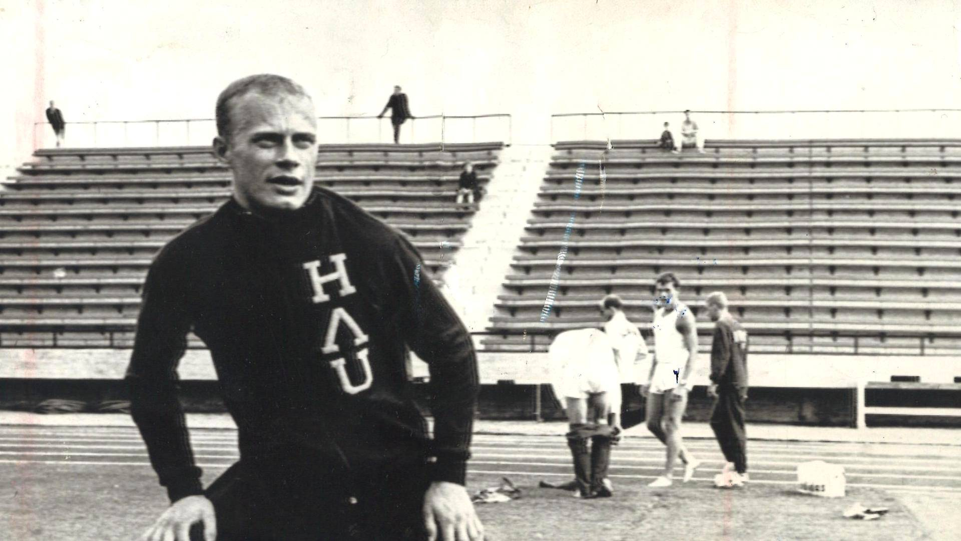 Photograph of the Finnish athlete Juha Väätäinen in Tampere.